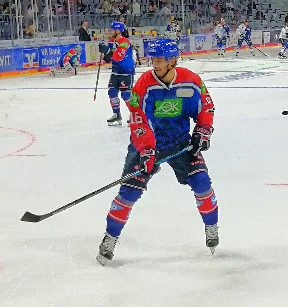 Markus Eisenschmid, hockey player, forward